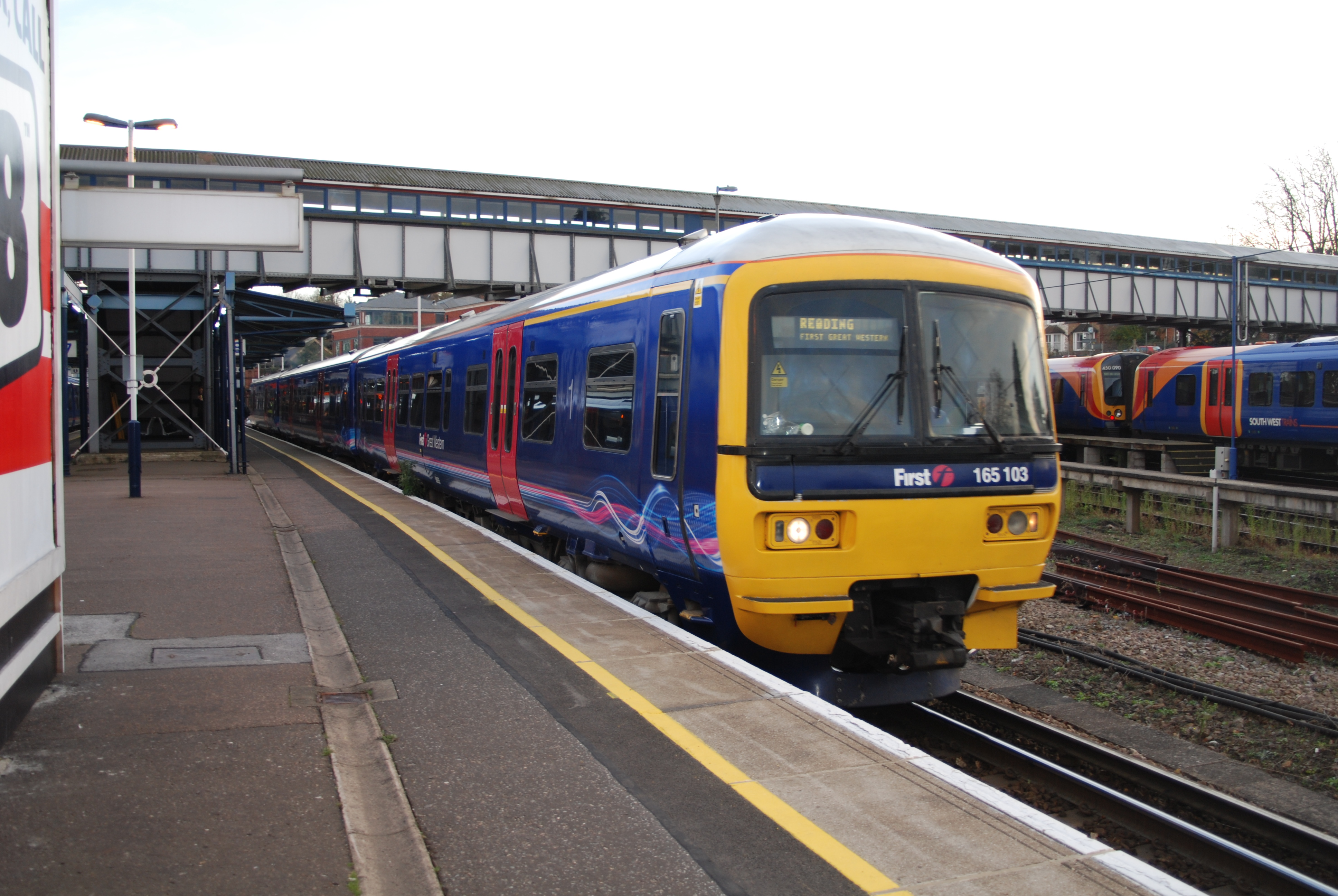 First Great Western Class 165 at Guildford Platform 8, with a service bound for Reading.